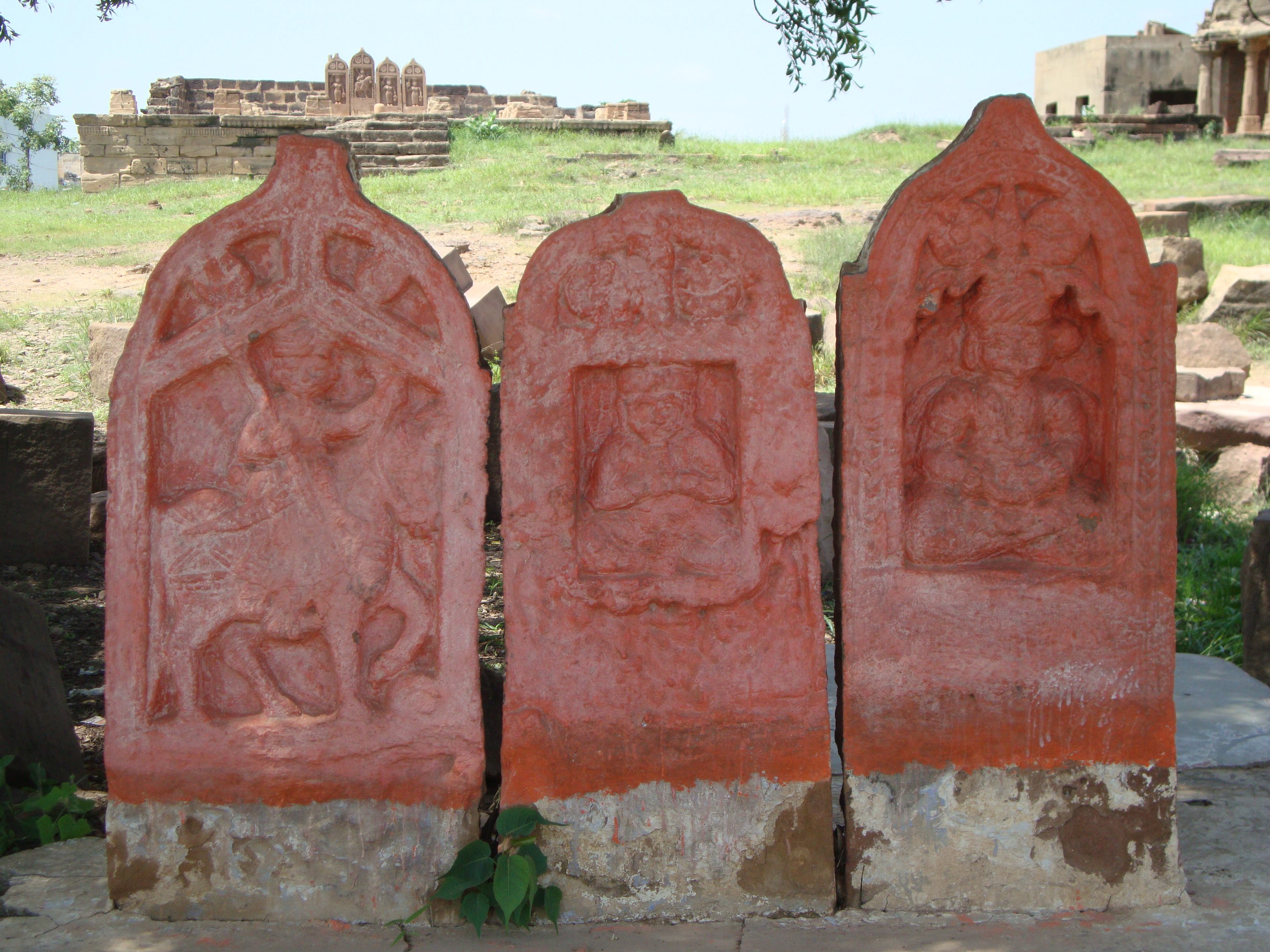 Samadhi near chatri2